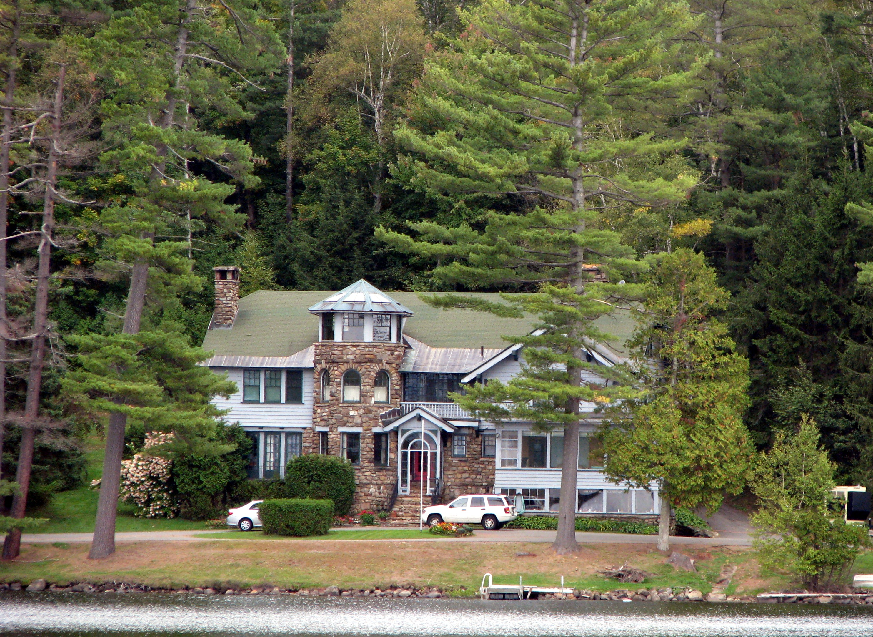 Camp Intermission, Saranac Lake, NY. Now known as Camp Colby. Formerly the property of William Morris.